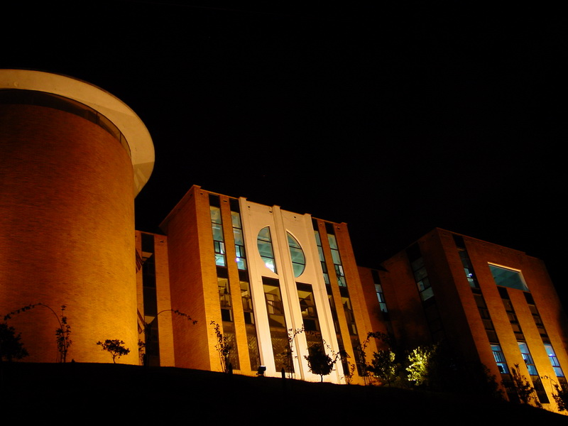 The Redemptoris Mater Missionary Seminary, are a reality Catholic Church, in charge of welcoming the vocations from the Neocatechumenal; to form priests prepared to support families start with the mission to perform, in different parts of world the "implantatio Ecclesiae".